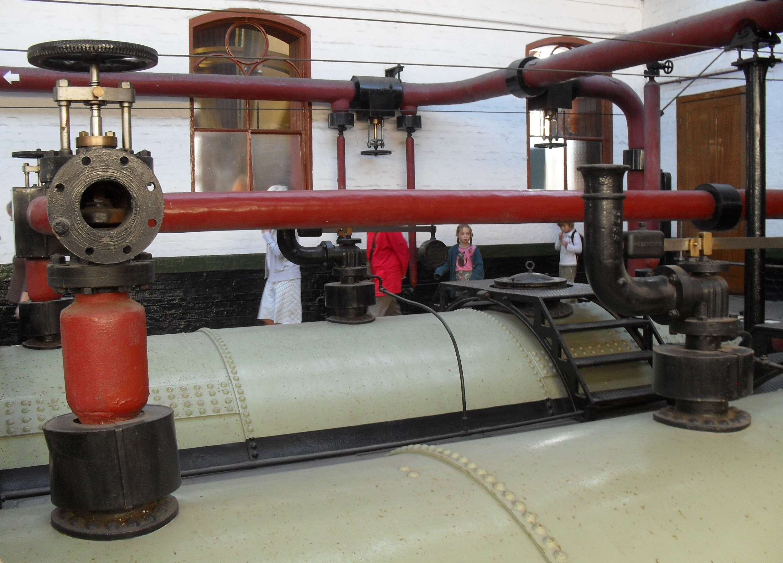 Restored Lancashire boilers in the former Boiler House at the British Engineerium, The Droveway, West Blatchington, Hove, City of Brighton and Hove, England. This equipment dates from 1934.